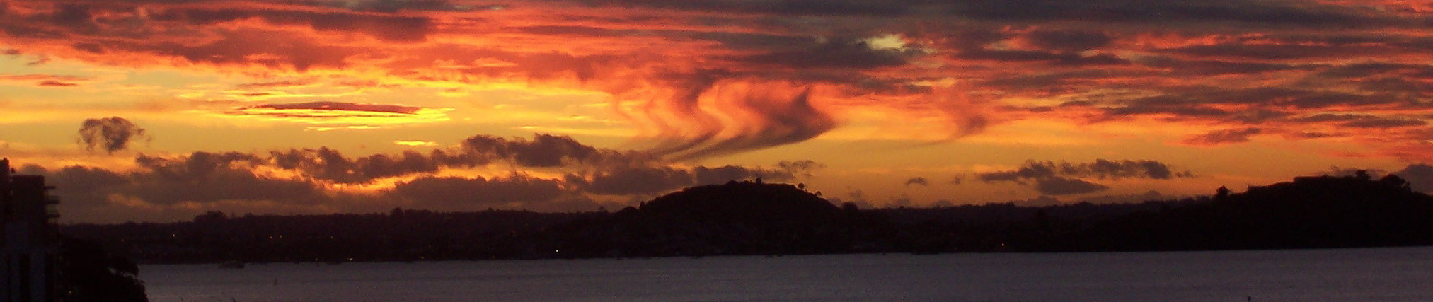 Subject: Waitemata Harbour at sunset, taken from the point between St Heliers and Kohimarama beaches, overlooking Mt Victoria (left) and North Head (right). The point between Kohimarama and Mission Bay is visible in the far left. Author: PageantUpdater Date: 23 June 2006